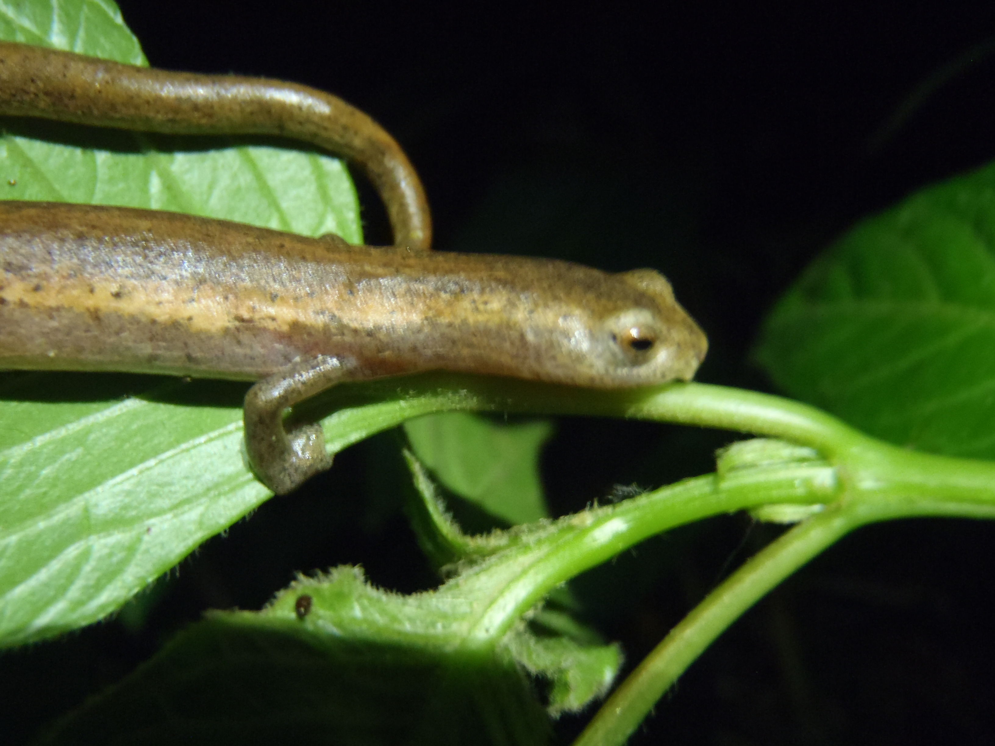 Photographed at Reserva Natural Volcan Mombacho